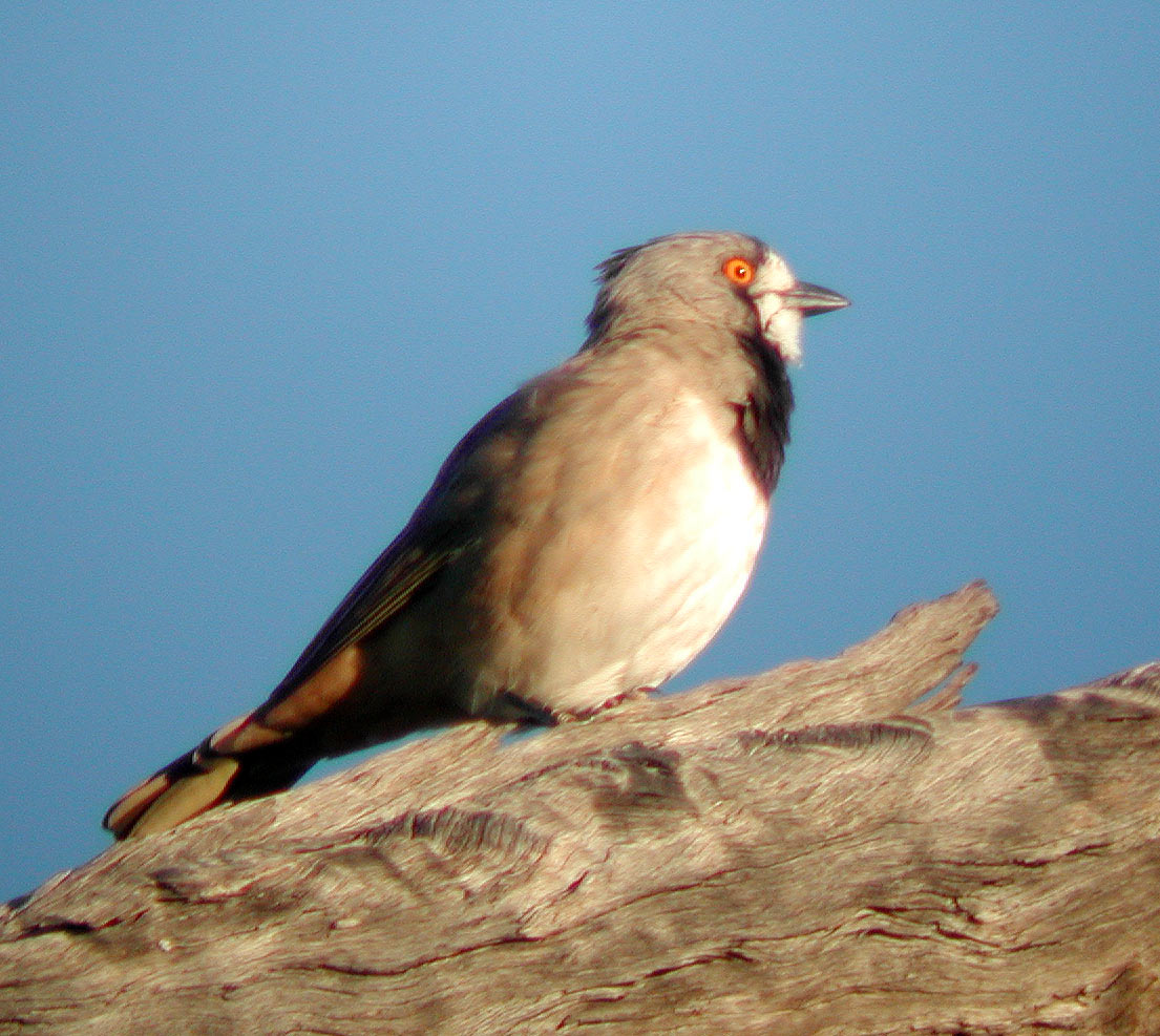 Crested Bellbird (Oreoica gutturalis) Male, Mulga View, St George, SW Queensland, Australia